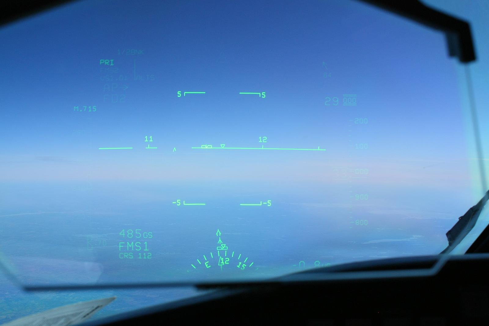 CRJ-200. The business part of the Heads-up Guidance System. The Captain took the picture. We couldn't get the whole screen to show up though.